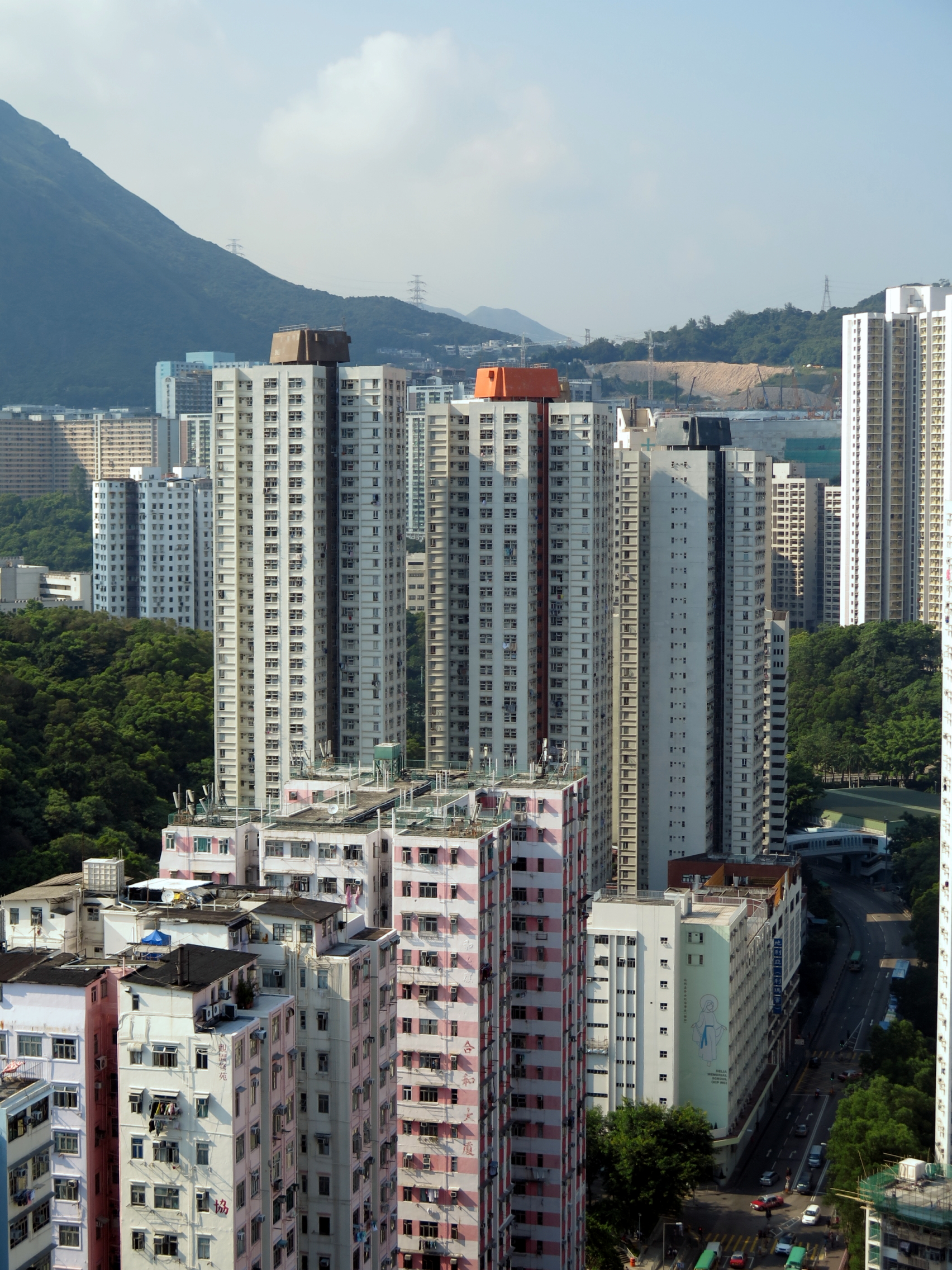 Cheung Wo Court